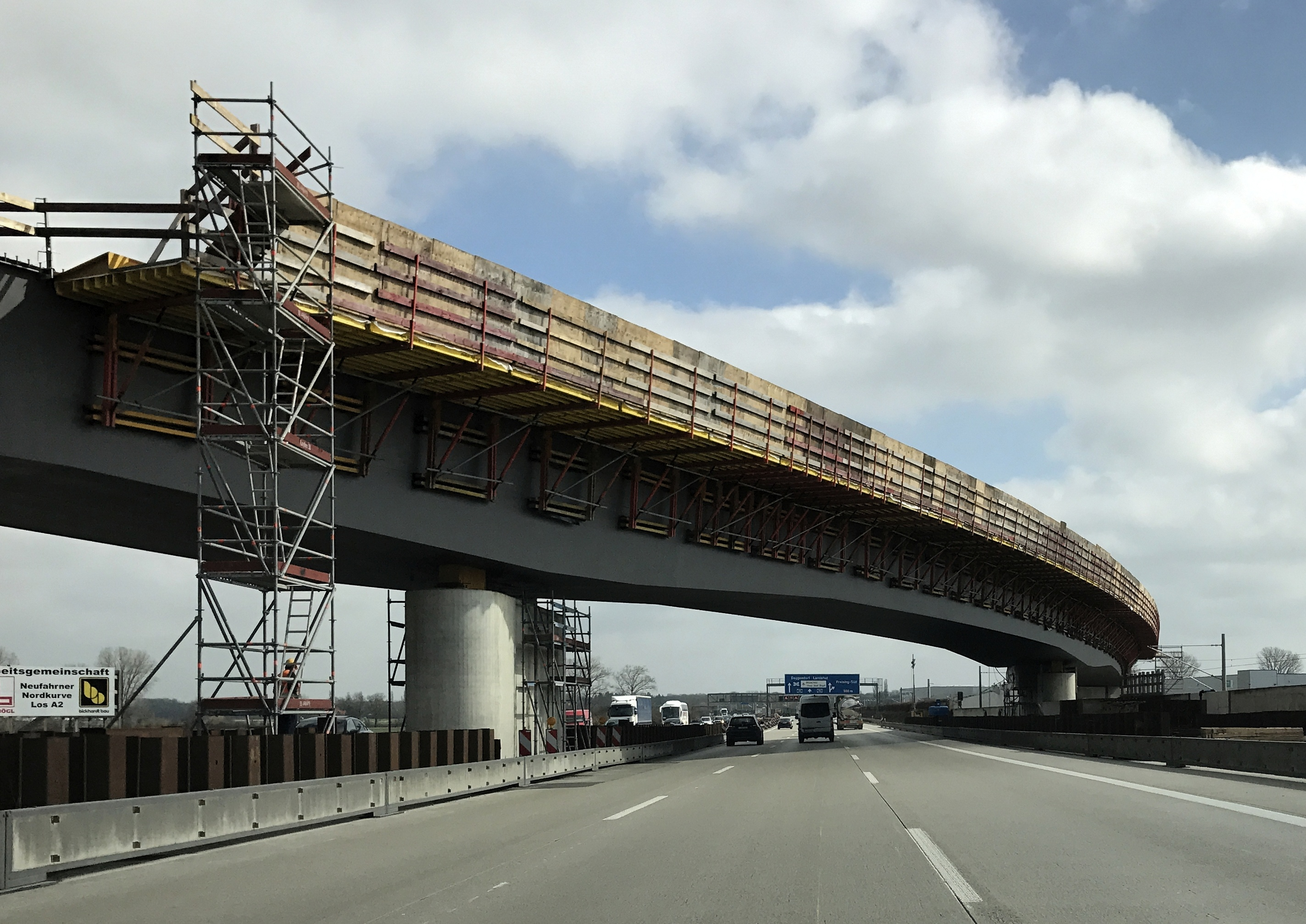 German Autobahn A92 near Neufahrn and Freising